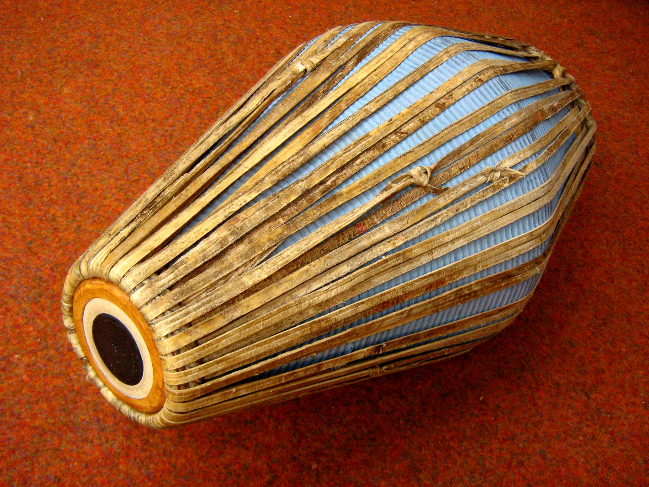 photo of mridanga showing the small head